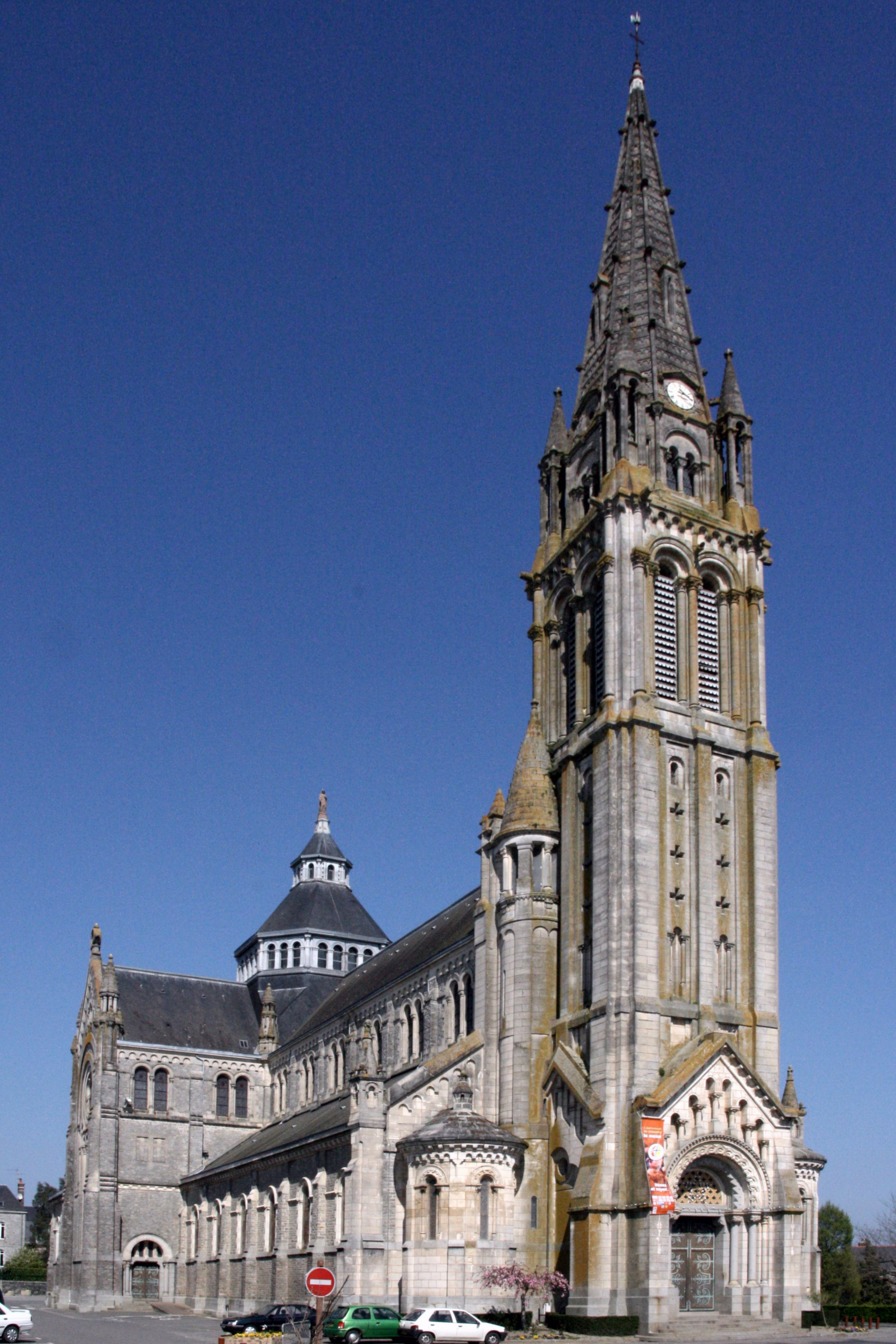 St Martin's church, Janzé, Ille-et-Vilaine, Brittany, France. Built in 19th century, in a roman revival architecture